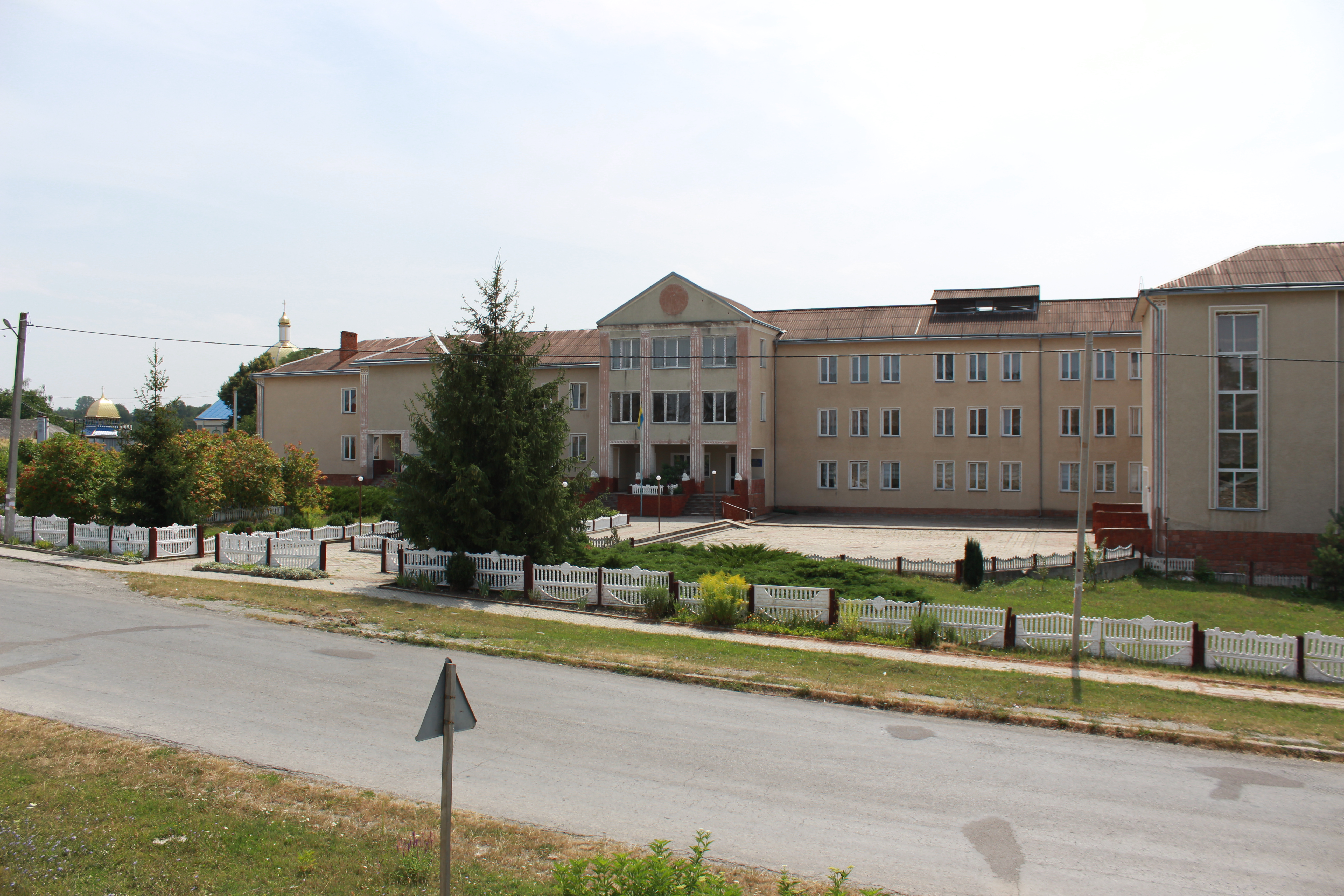 Building of village council in Kryvche